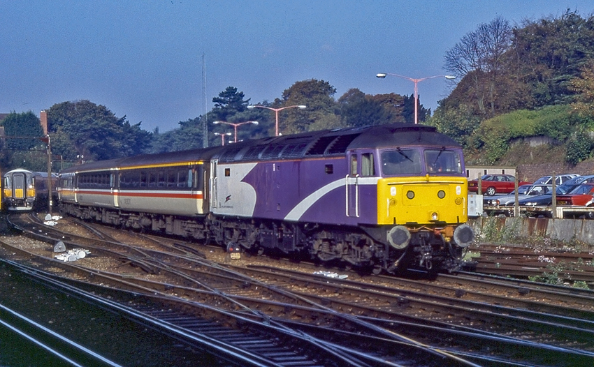 British Rail class 47/4 (extended range) locomotive, 47 817 in Porterbrook livery at Bournemouth hauling the Poole - Manchester cross-country service. Numbering history: D1611 47 032 47 662 47 817 57 311 Scanned from a Fujichrome 35mm slide.